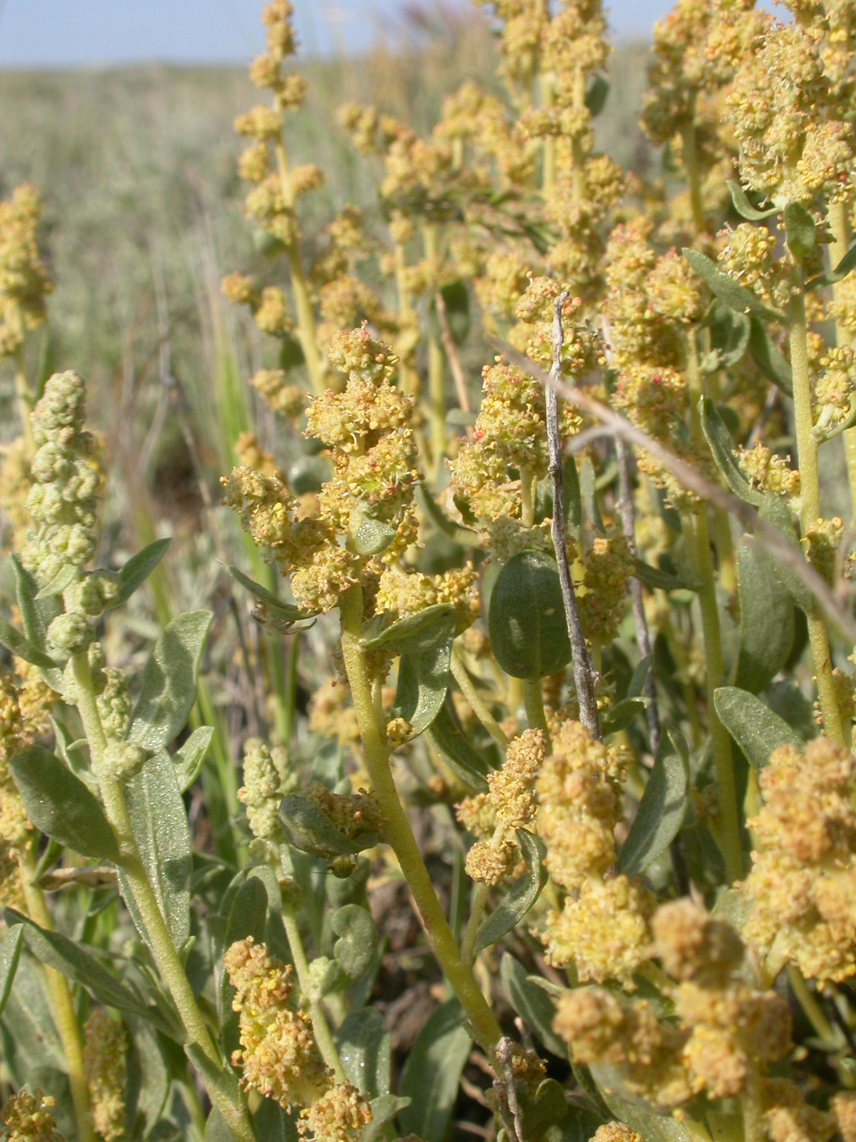 That this species is fairly common and can often be found with a woody base in this area suggests little if any overstocking of this range during recent decades.